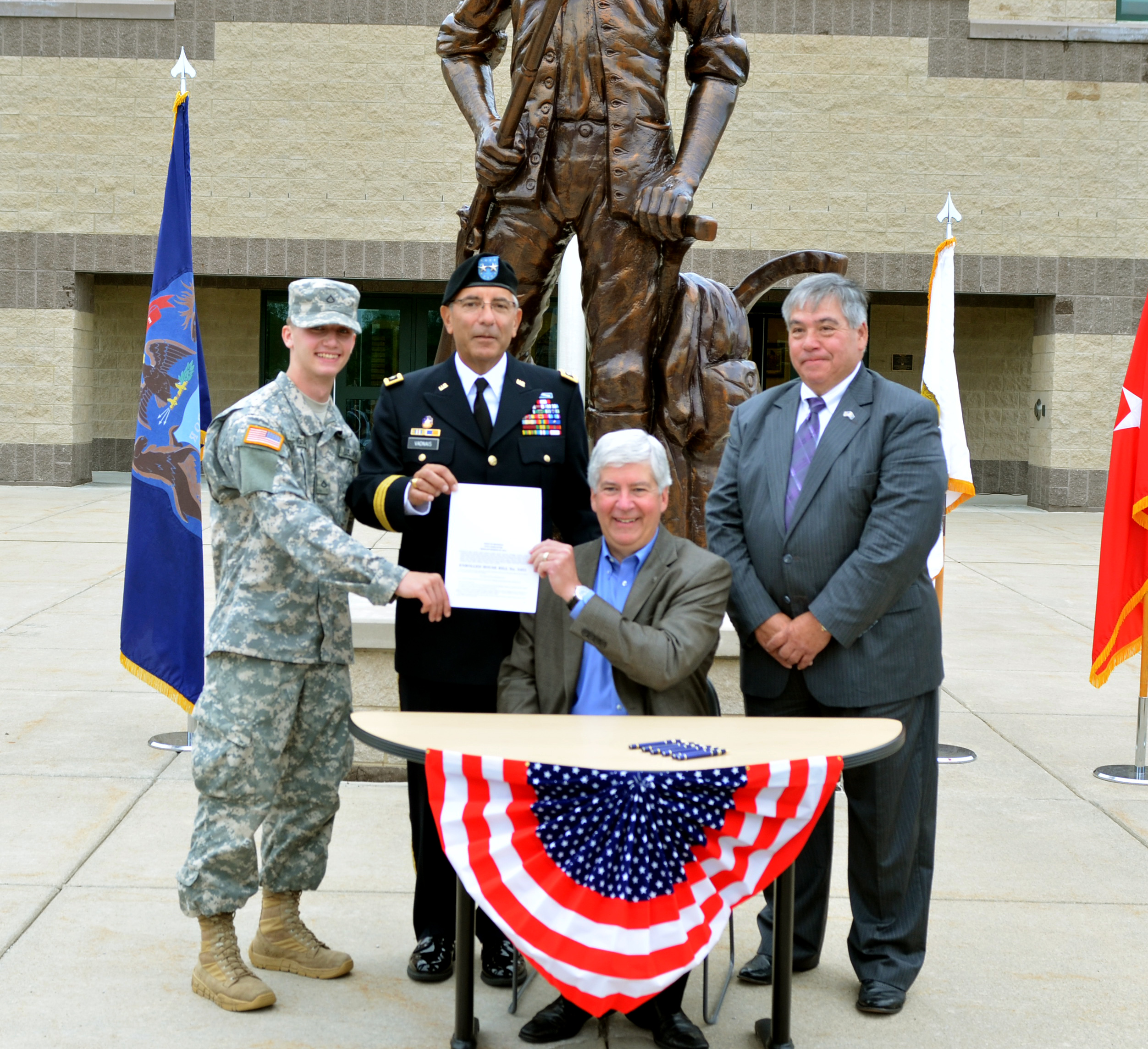 Gov. Rick Snyder holds up House bill 5451 after signing the bill at the Michigan National Guard Joint Force Headquarters in Lansing, Mich., July 1, 2014. Holding the bill with the governors are Company B, 1st Battalion, 125th Infantry Soldier Private 1st Class Ian Cunningham and Michigan Adjutant General Maj. Gen. Gregory Vadnais. Also pictured is Rep. Bruce Renden, the bill’s sponsor. The bill provides tuition assistance for Michigan Guard members in good standing. (Michigan National Guard photo by Master Sgt. Denice Rankin)